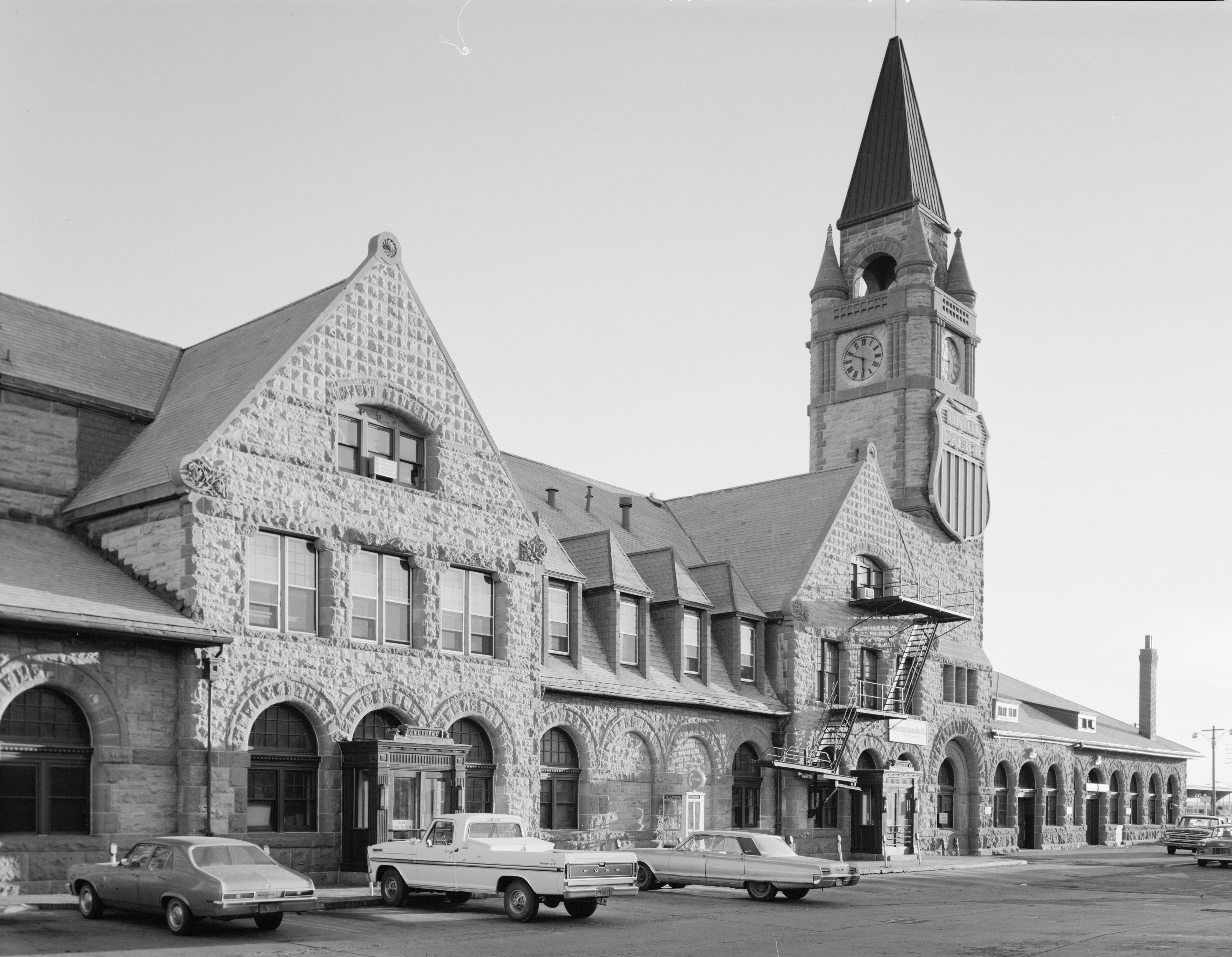 Union Pacific Passenger Station, 121 West Fifteenth Street, Cheyenne (Laramie County, Wyoming) (cropped). Image courtesy of Historic American Buildings Survey—HABS.